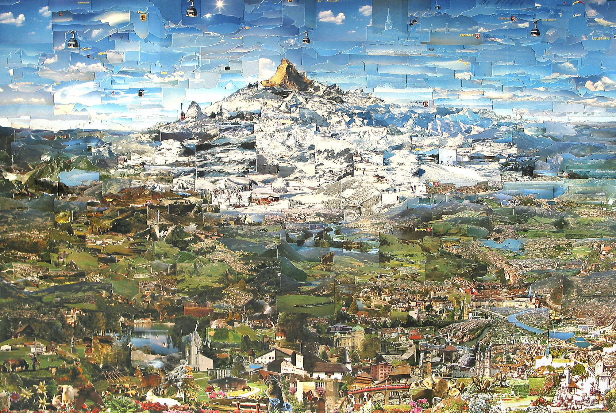 Title: Grüezi Schweiz (Collage of picture cards showing typical swiss landscape)